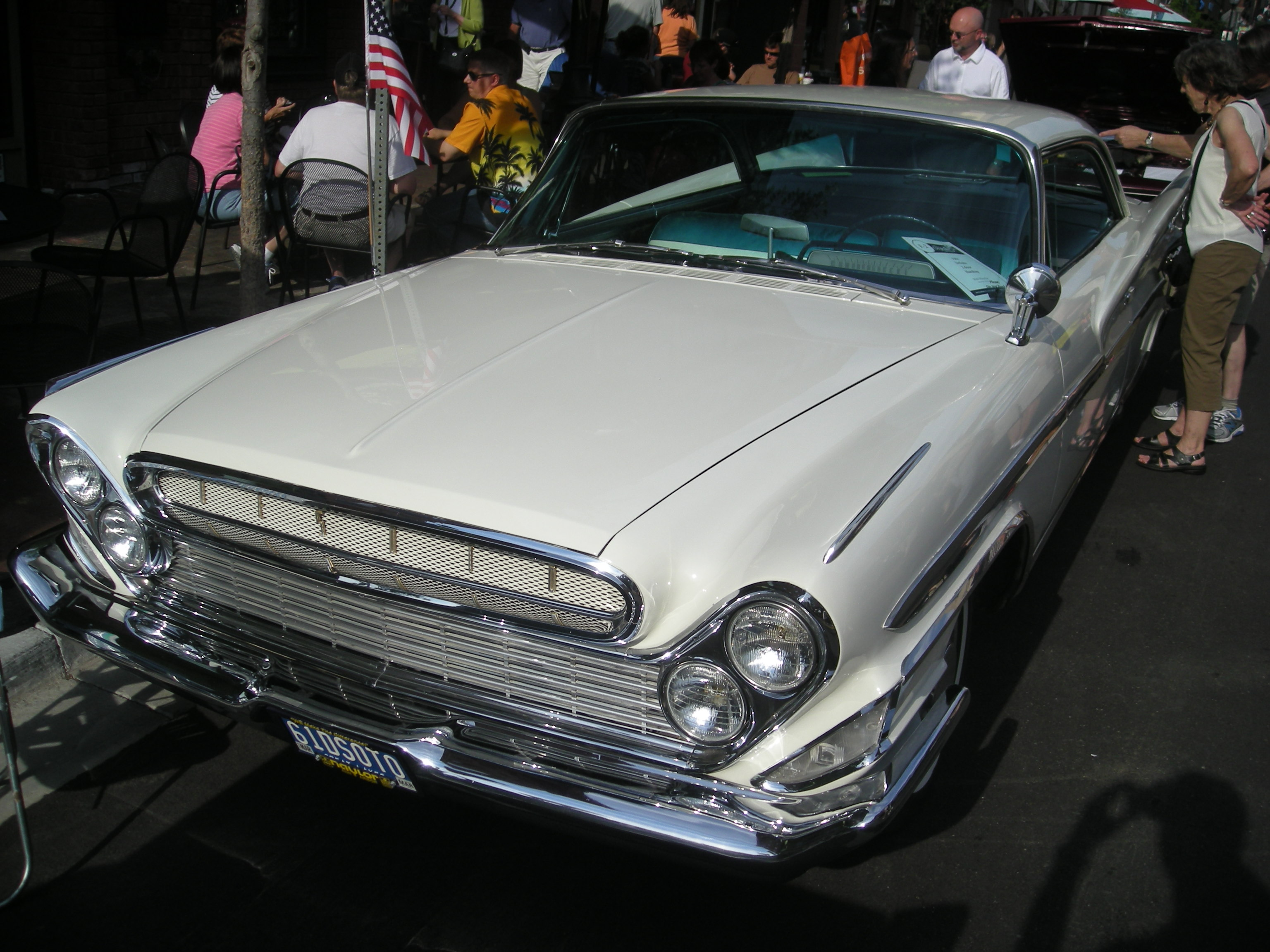 A 1961 DeSoto Hardtop at the 2014 Rolling Sculpture Car Show in Ann Arbor, Michigan (United States).